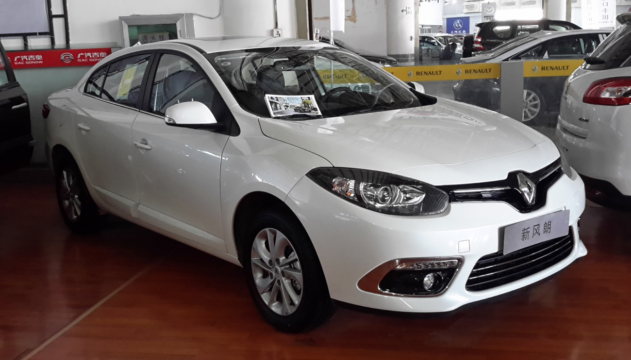 Renault Fluence facelift II photographed in Xi'an, Shaanxi province, China.